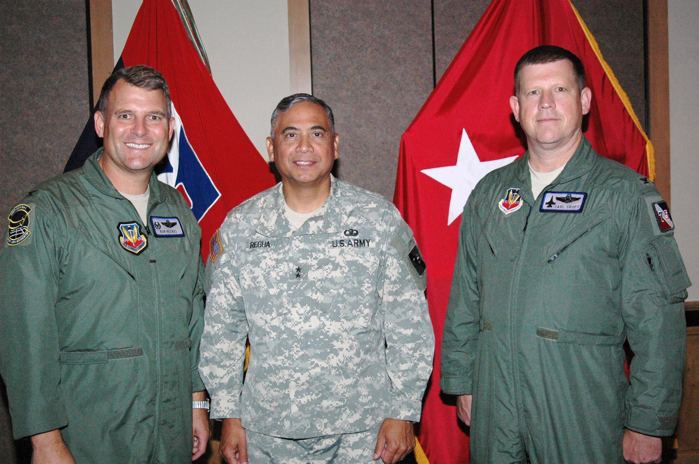 U.S. Army Maj. Gen. Eldon Regua, (center) 75th Battle Command Training Division commanding general, met with Col. Robert Beckel, 505th Command and Control Wing Detachment 1 commander, (left) and Col. Carl Croft, former 1st Battle Command Training Brigade Air Force Reserve Element director, during a senior leader conference Sept. 16 and 17 in Houston, Texas. The 505th CCW assumed Air Force capability training for the U.S. Army Reserve's 75th BCTD Oct. 15. (U.S. Army photo)